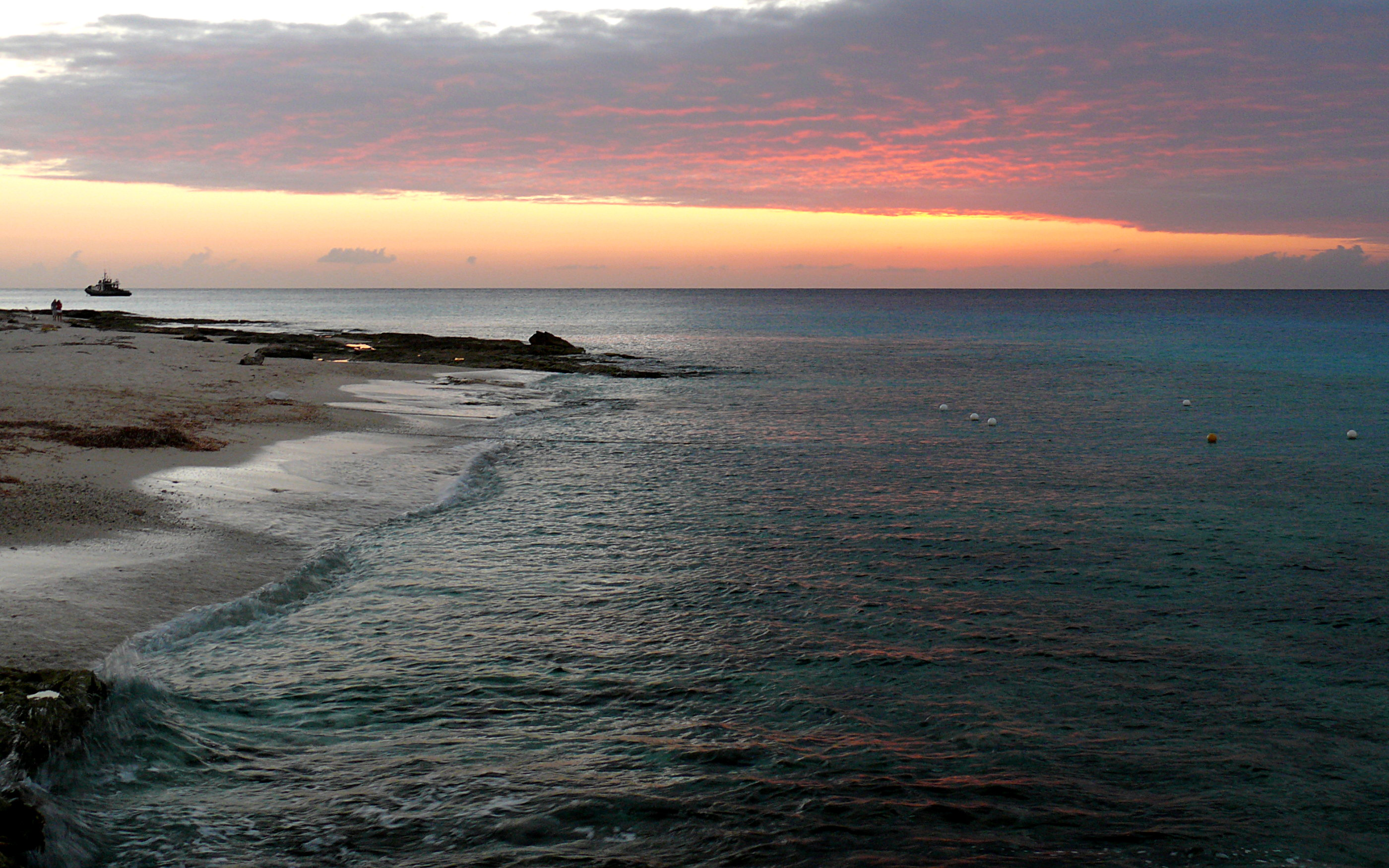 Sunset over the leeward (western) shore of Cozumel, as seen from the pier at the El Cozumeleño resort.Photo taken with a Panasonic Lumix DMC-FZ50 in Quintana Roo, Mexico.